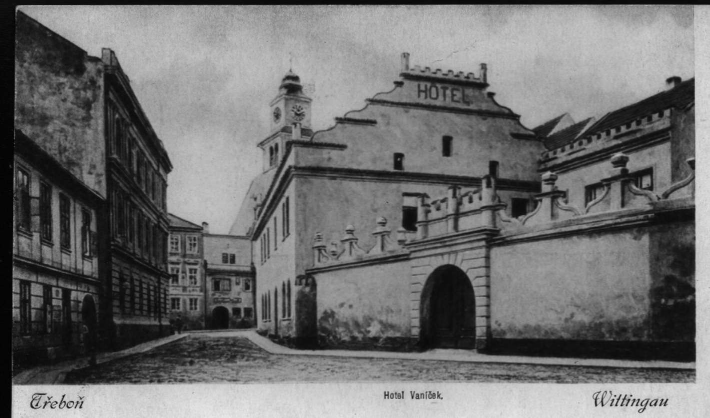 Hotel Bily konicek, Trebon. Hotel yard and stables, with hand-made touch, original picture, 1921